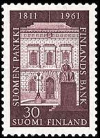 Building of bank of Finland - J.V.Snellman statue in front of building.